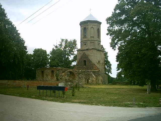 Ruins of the Church in Górzyn.